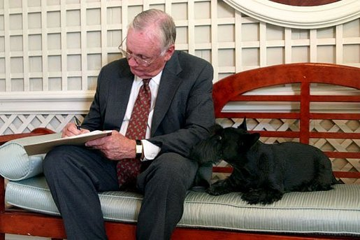 Neil Armstrong and presidential dog Barney in the White House Garden Room, July 2004.